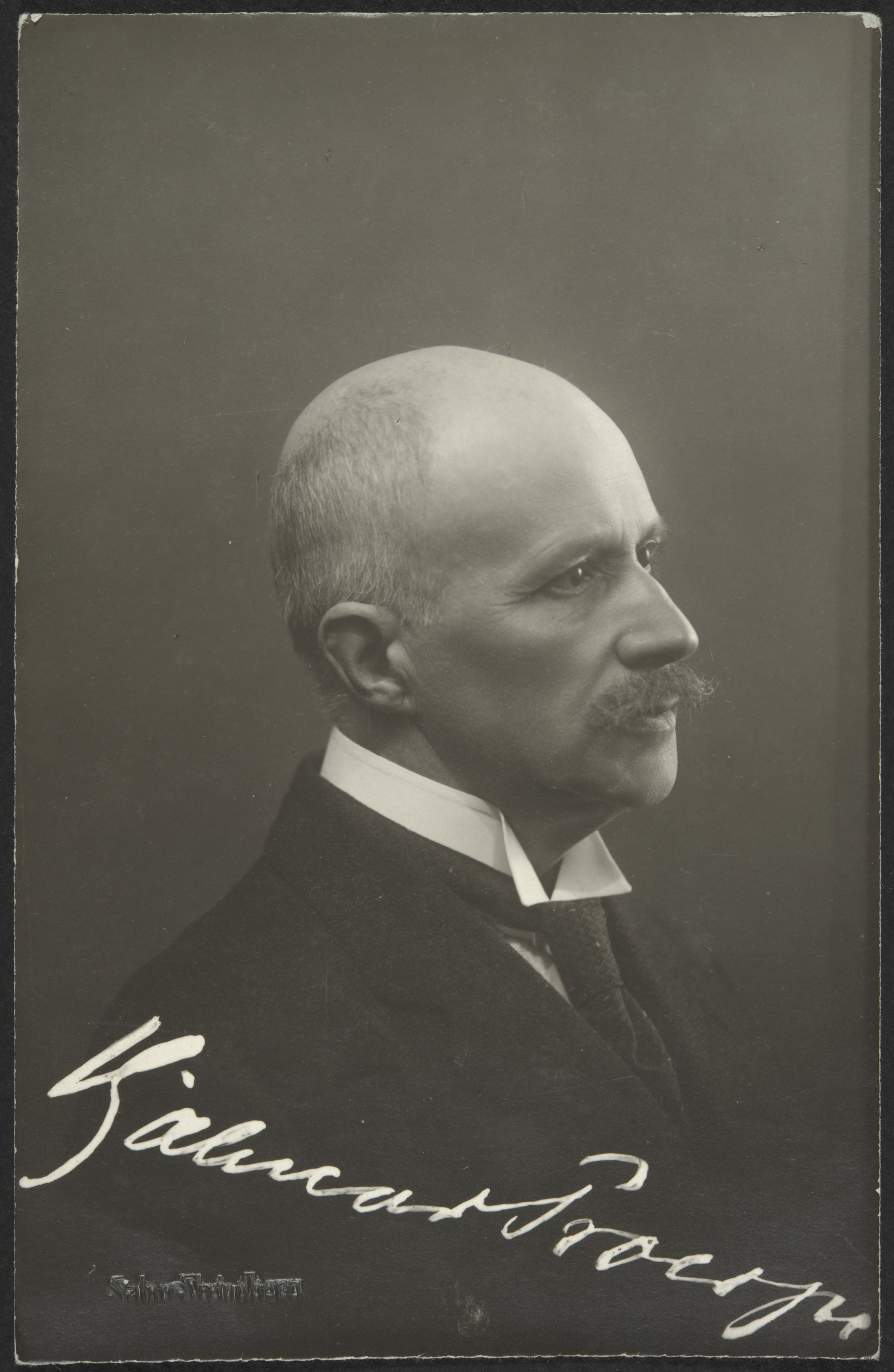 Photograph of the Finnish writer Hjalmar Fredrik Eugen Procopé (1868–1927).